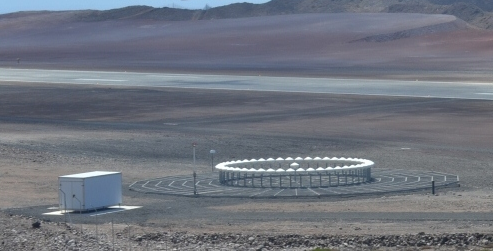 Doppler VOR ground antenna at Saint Helena Airport